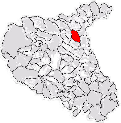 Map of limits of commune in Vrancea County